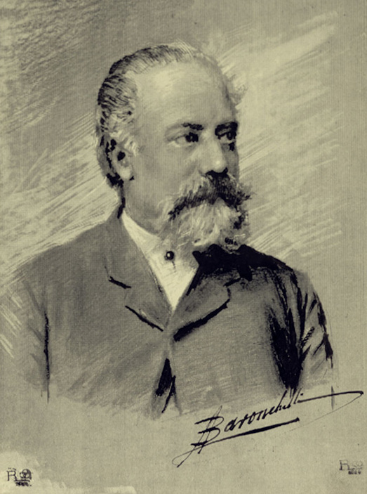 Portrait of Gaetano Palloni, composer (1831-1892), before 1917.